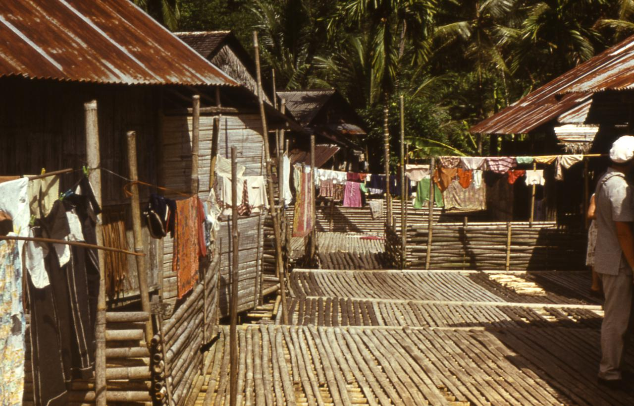 The street in local village